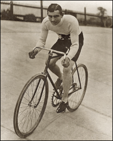 Welsh professional cyclist Arthur Linton, taken prior to his death in 1896.